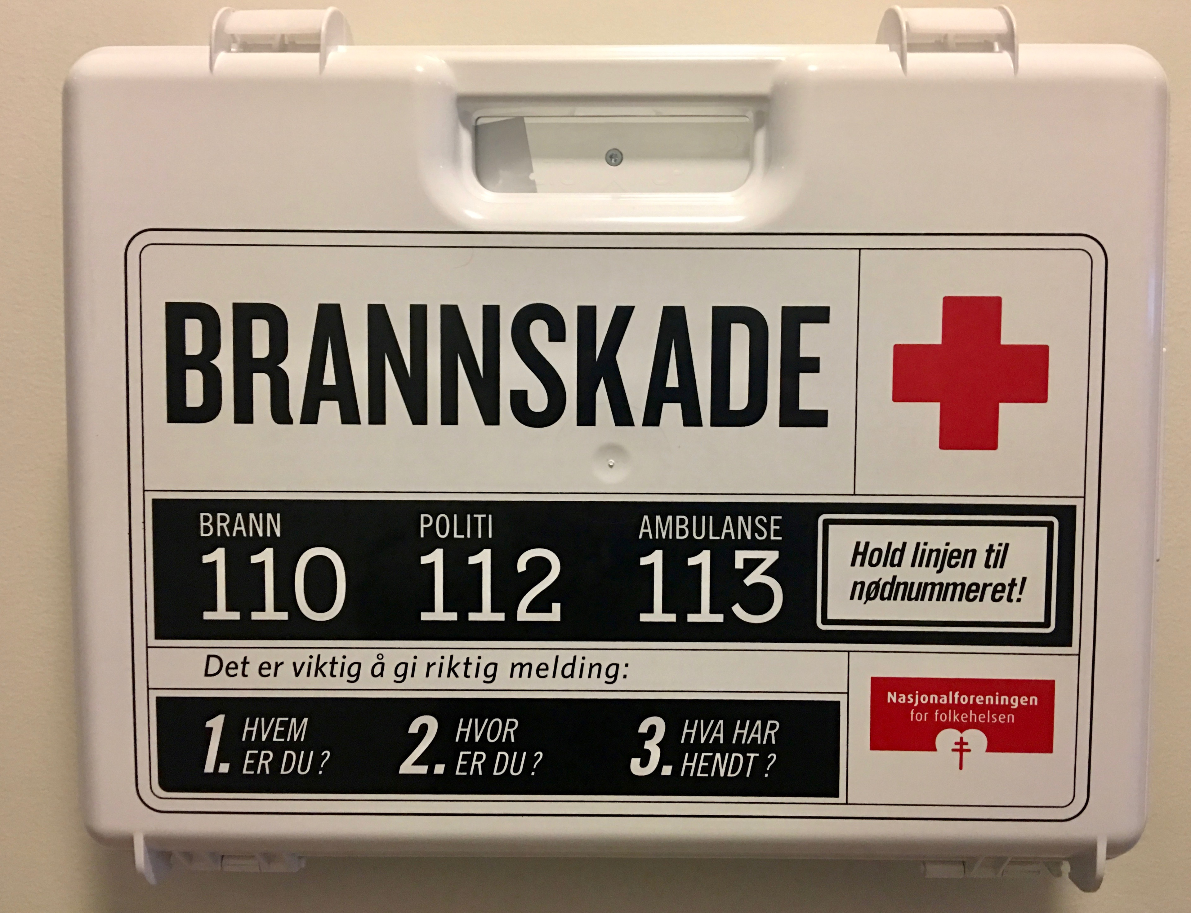 Norwegian first aid kit from "Nasjonalforeningen for folkehelsen" in primary school in Tjeldstø, Norway. October 2017.